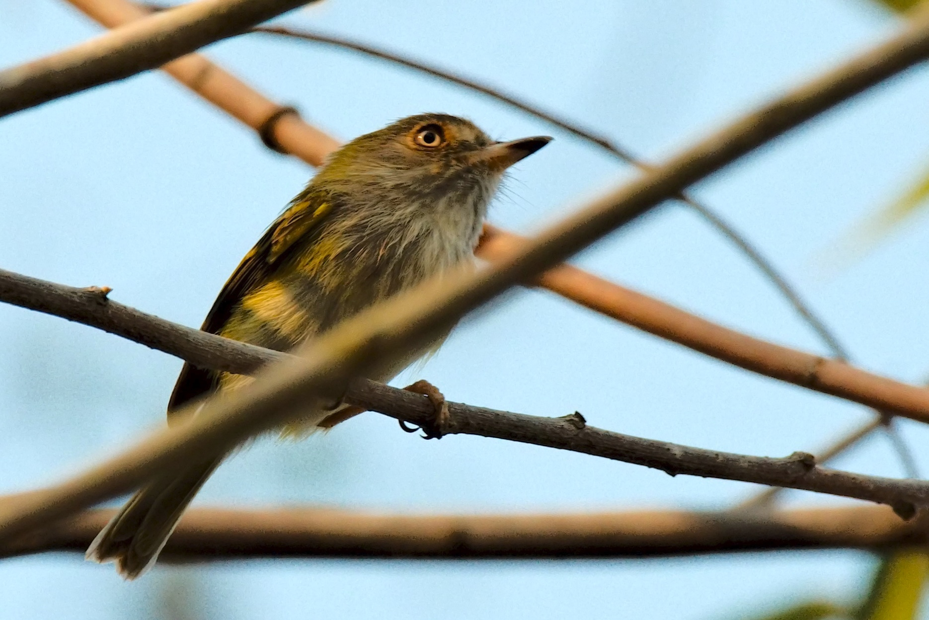 Pale-eyed Pygmy-Tyrant